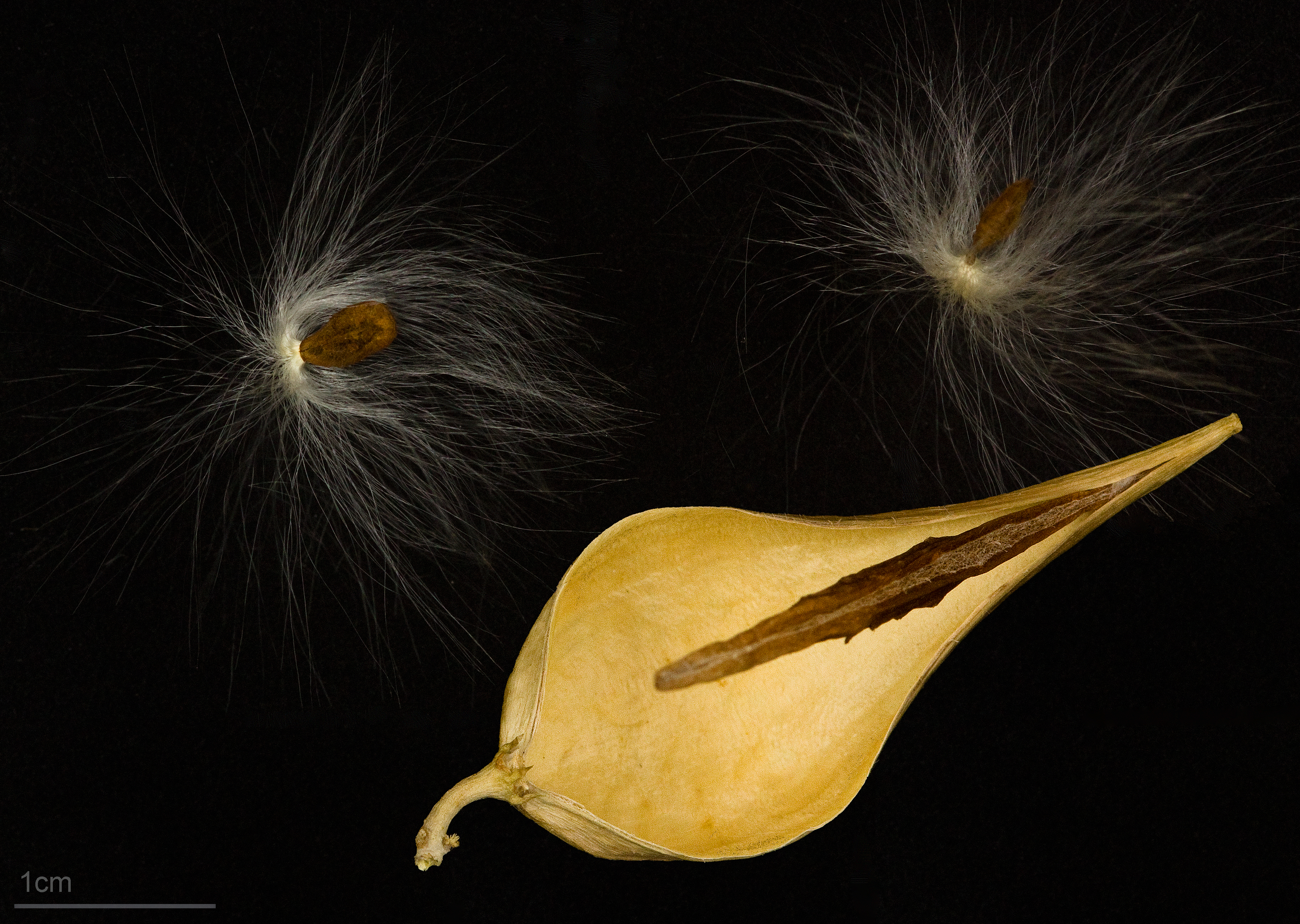 Swallow-wort , fruits and seeds